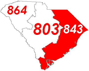 The image depicts the area codes of the state of South Carolina, having the area code 843 highlighted in red.